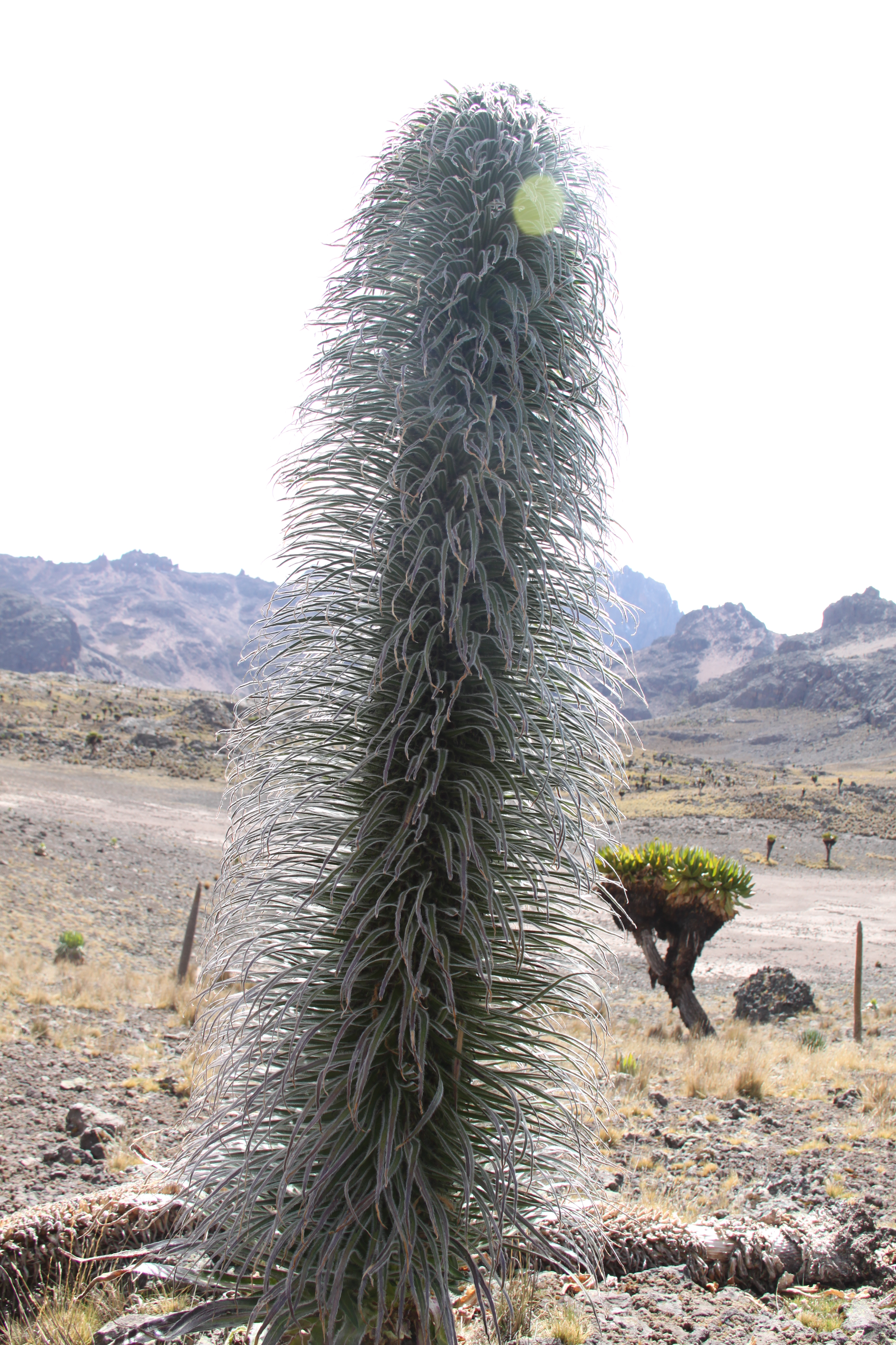 inflorescence of Lobelia telekii, photographed at Hall Tarns, Chogoria route, Mount Kenya, at 4300 m altitude